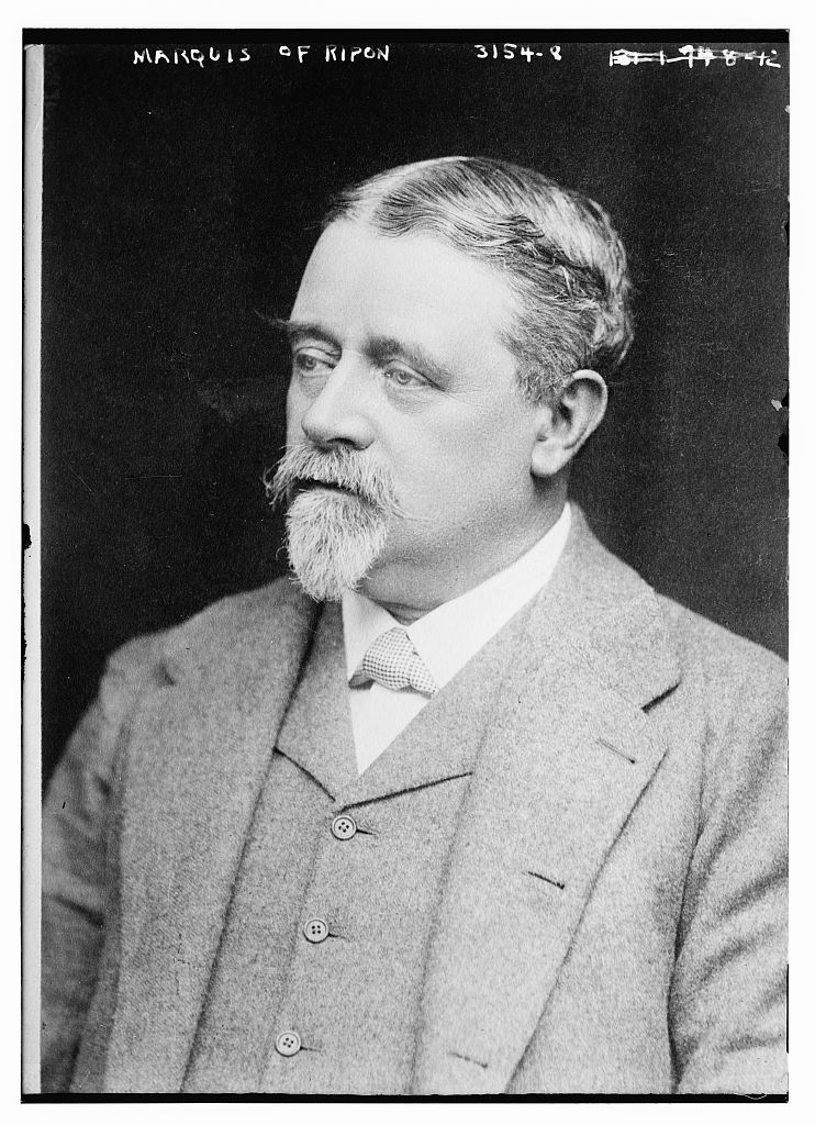 Frederick Robinson Bain News Service,, publisher. Marqus of Ripon [between ca. 1910 and ca. 1915] 1 negative : glass ; 5 x 7 in. or smaller. Notes: Title from unverified data provided by the Bain News Service on the negatives or caption cards. Forms part of: George Grantham Bain Collection (Library of Congress). Format: Glass negatives. Repository: Library of Congress, Prints and Photographs Division, Washington, D.C. 20540 USA, General information about the Bain Collection is available at Persistent URL: Call Number: LC-B2- 3154-8